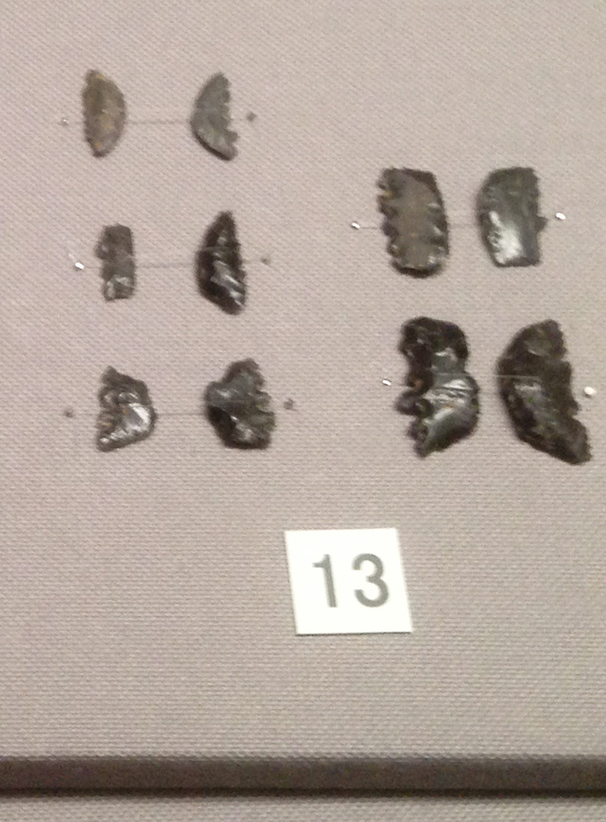 "Stone saw" or possible blades for composite fish spears. Late to Final Jomon period (2000-400 BCE) or Initial Yayoi period (900-400 BCE). Tokyo National Museum.